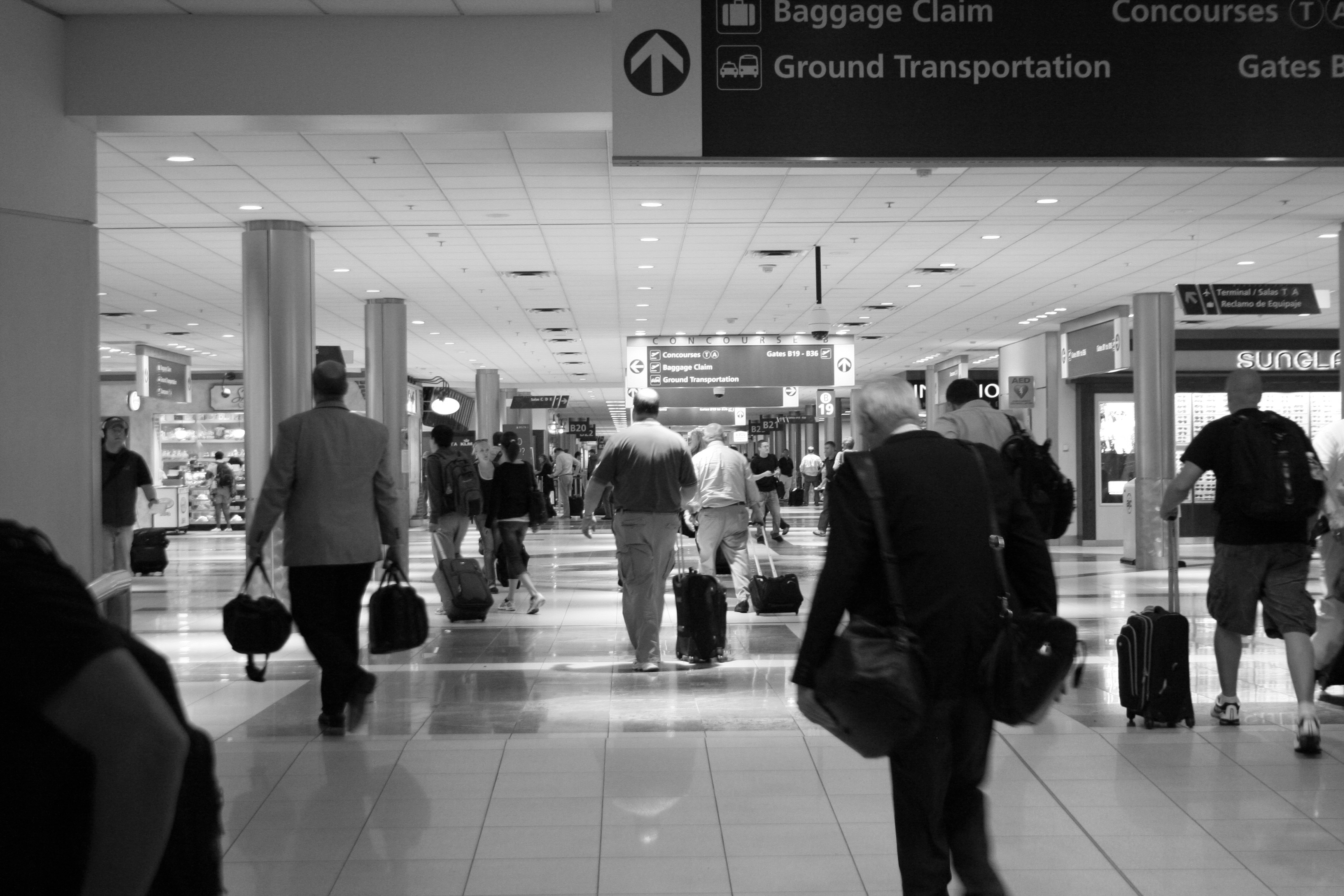 Interior of Hartsfield-Jackson Atlanta International Airport